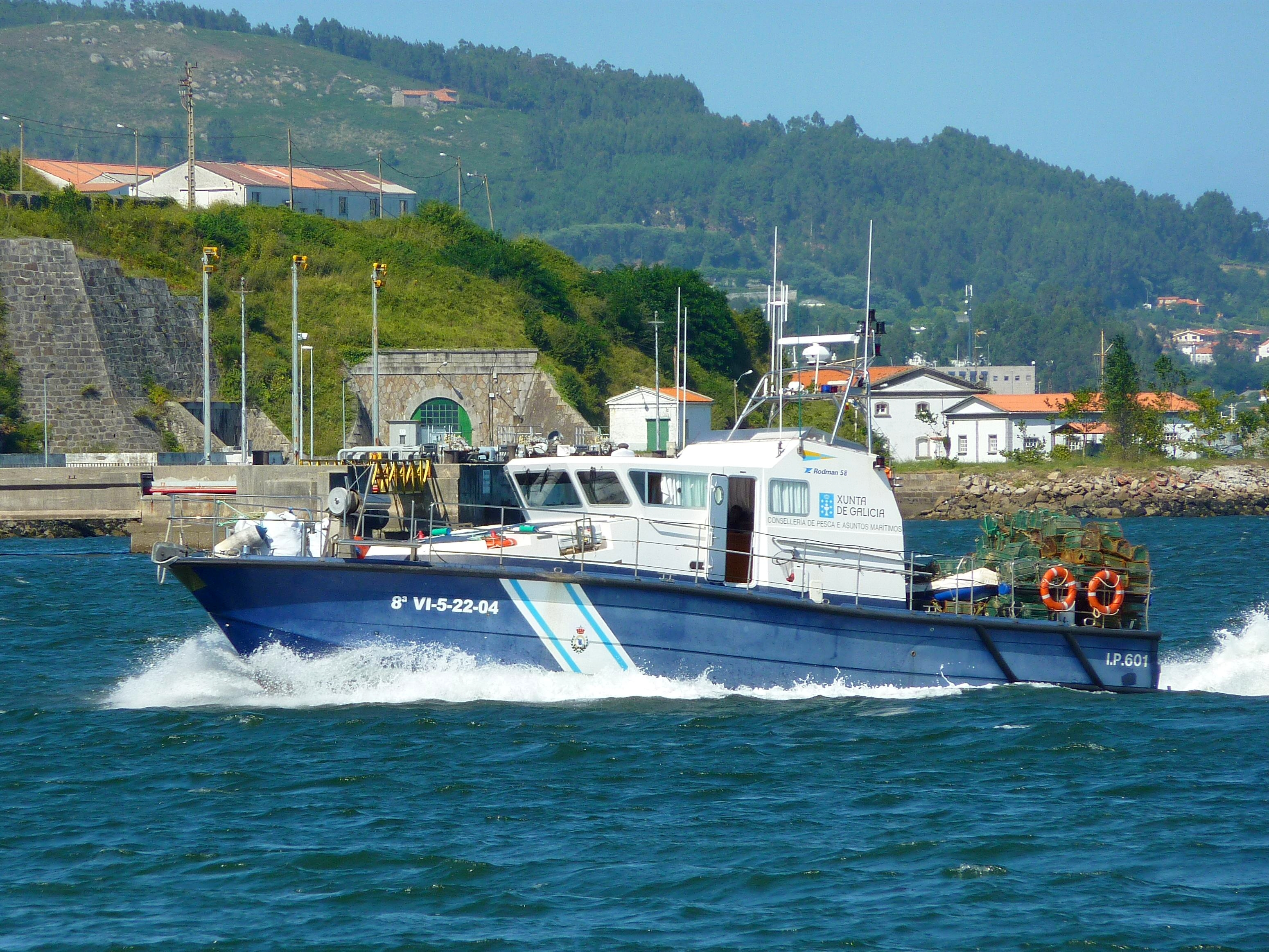 Rodman-58 class patrol craft "Punta Roncadoira", I.P. 601, of the Galician Coast Guard, Spain.